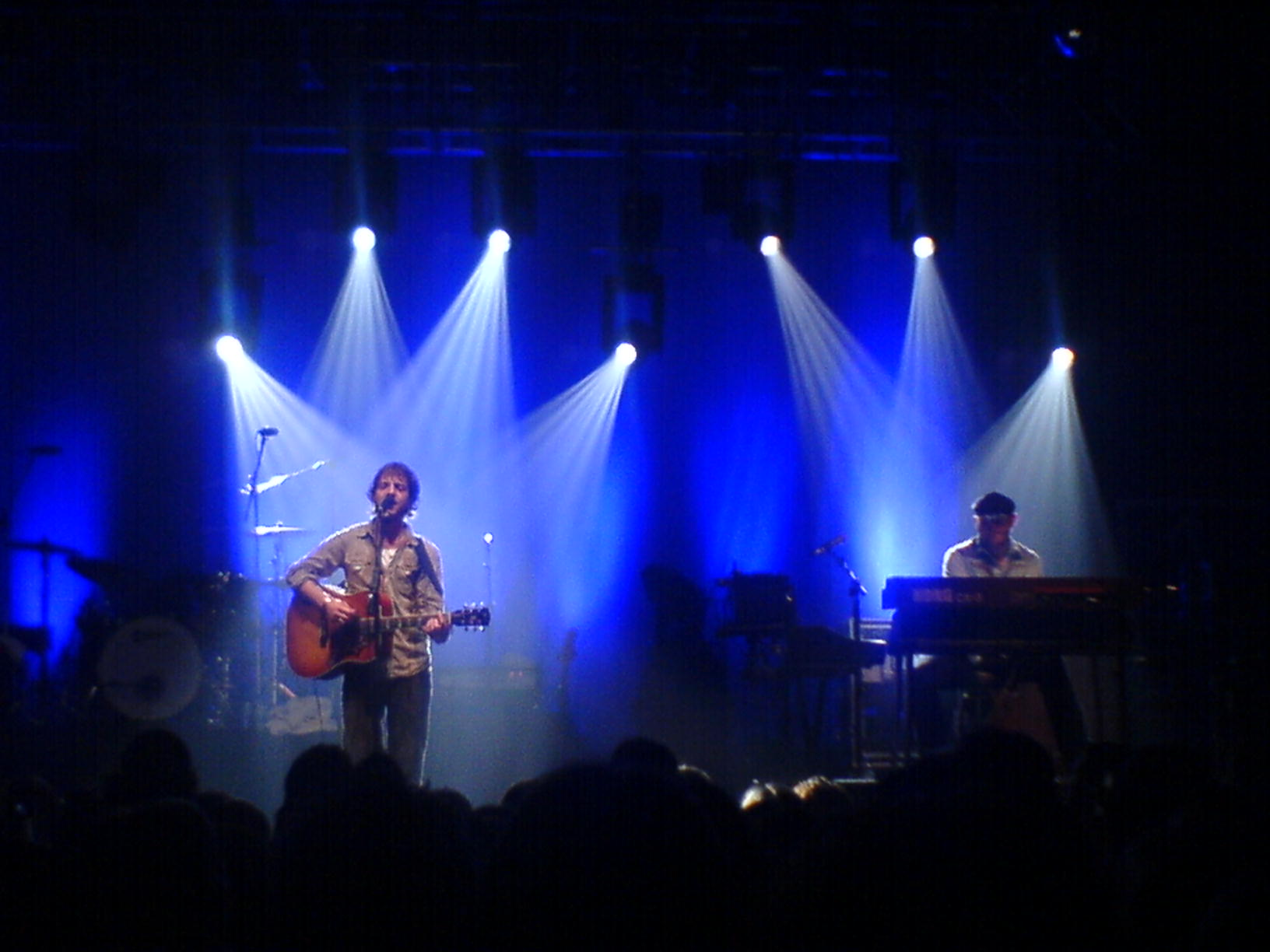 James Morrison plays "Better Man" on stage at the Newcastle Carling Academe.